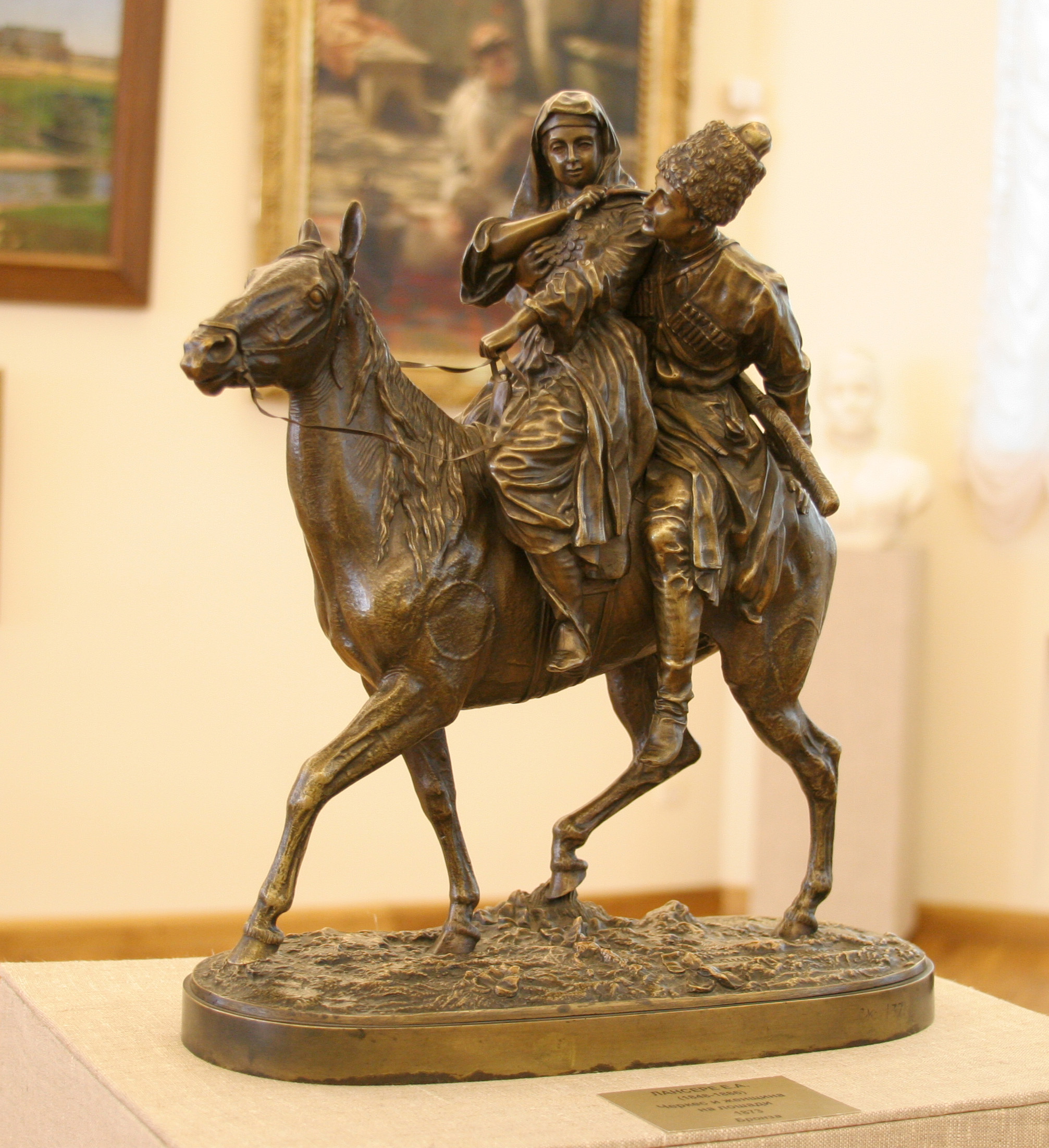 Radishchev Art Museum. Kaslinskoe casting. Sculpture Yevgenia Lanceray «Cherkes and a woman on horse»